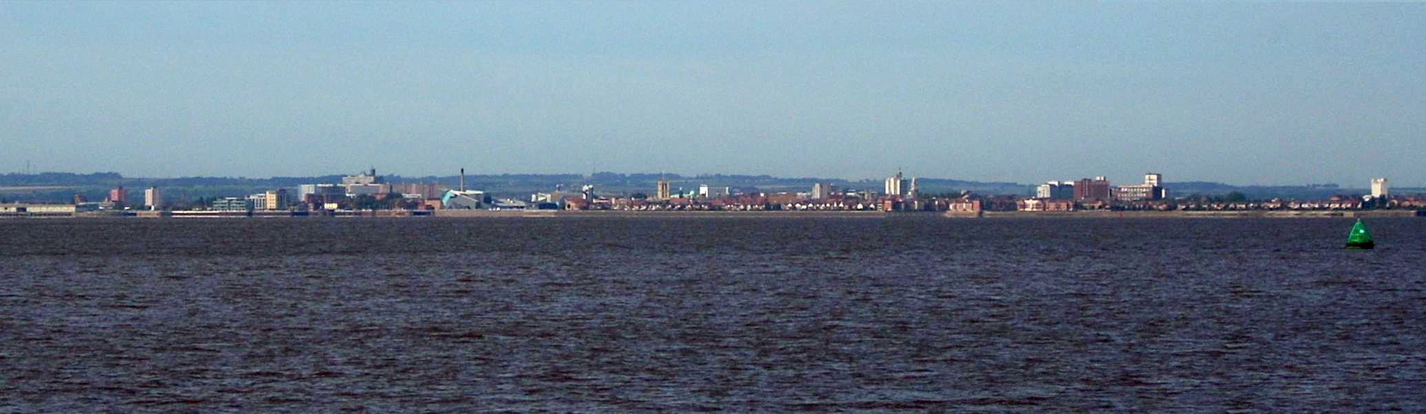 Kingston upon Hull seen from the north bank of the Humber near Paull, East Riding of Yorkshire, England, with the hills of the Yorkshire Wolds rising behind the city.